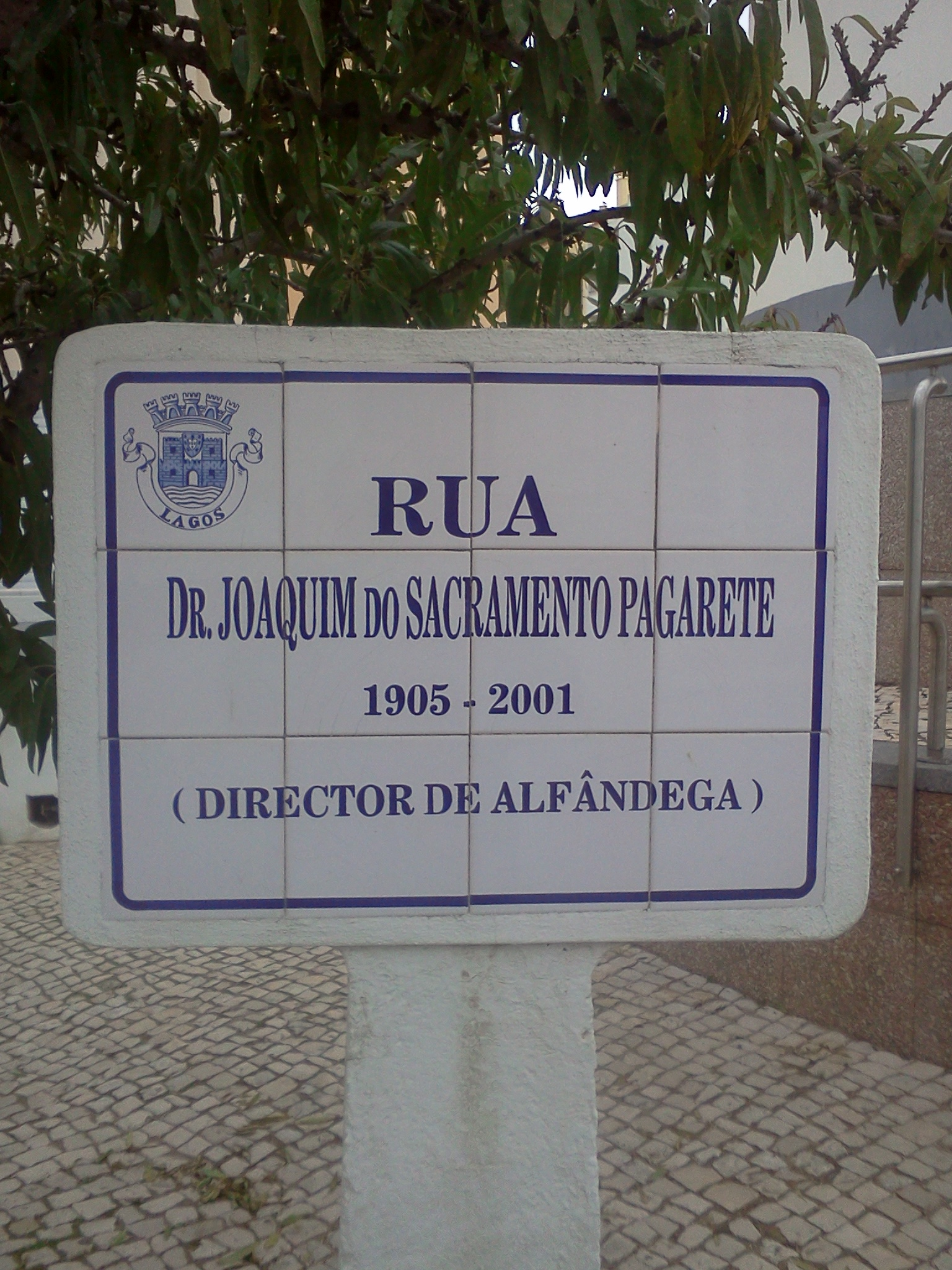 Street sign of Rua Joaquim do Sacramento Pagarete, in the city of Lagos, in southern Portugal.